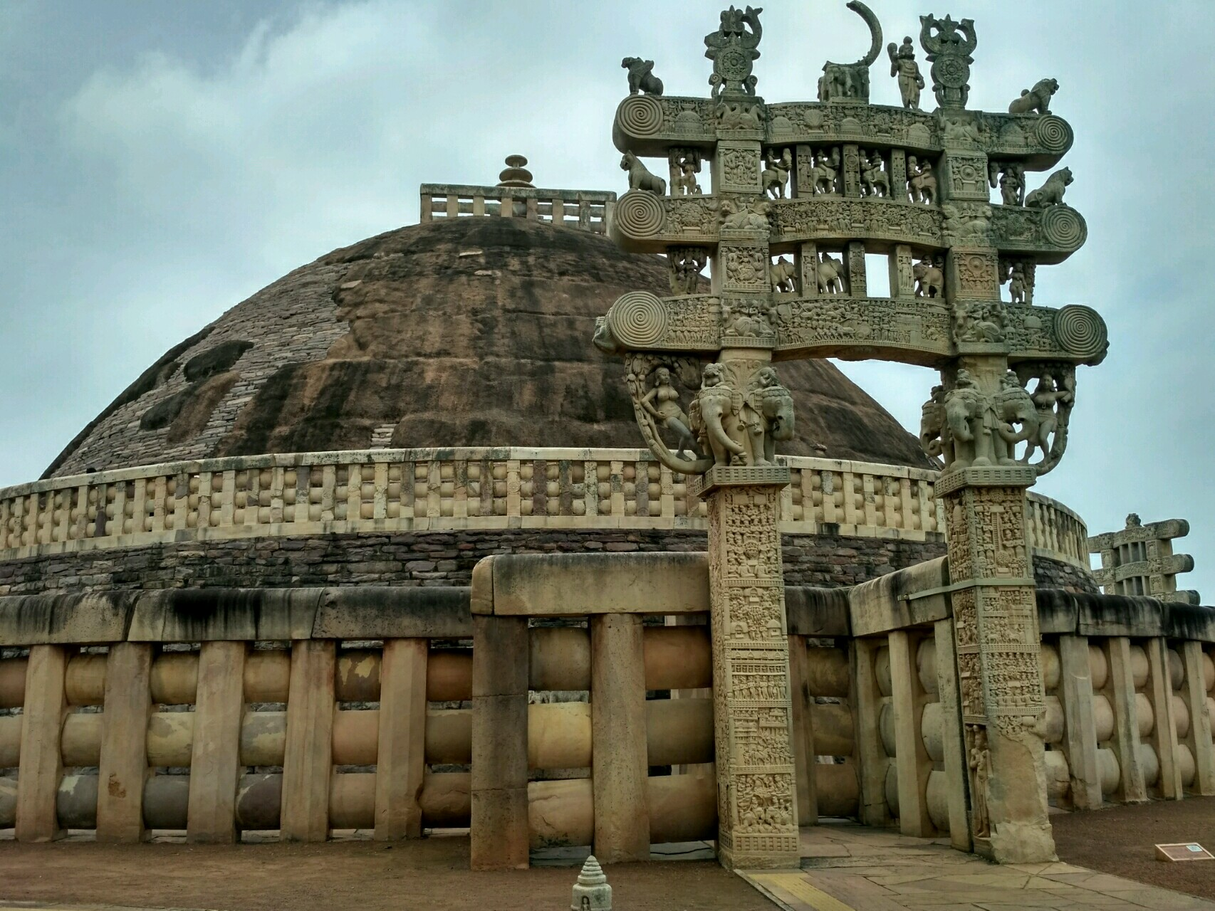 The great stupa , sanchi - Sanchi stupa located on the hills of Sanchi , raisen district , Madhya Pradesh . Sanchi is a famous and UNESCO world site .There are many stupas at sanchi but most famous of the is The great stupa.It was made by the great Mauryan emperor Ashoka in the 3rd century BC. It is said that the stupa is built over the recs of lord Buddha.The great stupa is the oldest structures of the constructed stupas. The sanchi stupas are the oldest stone structure in India